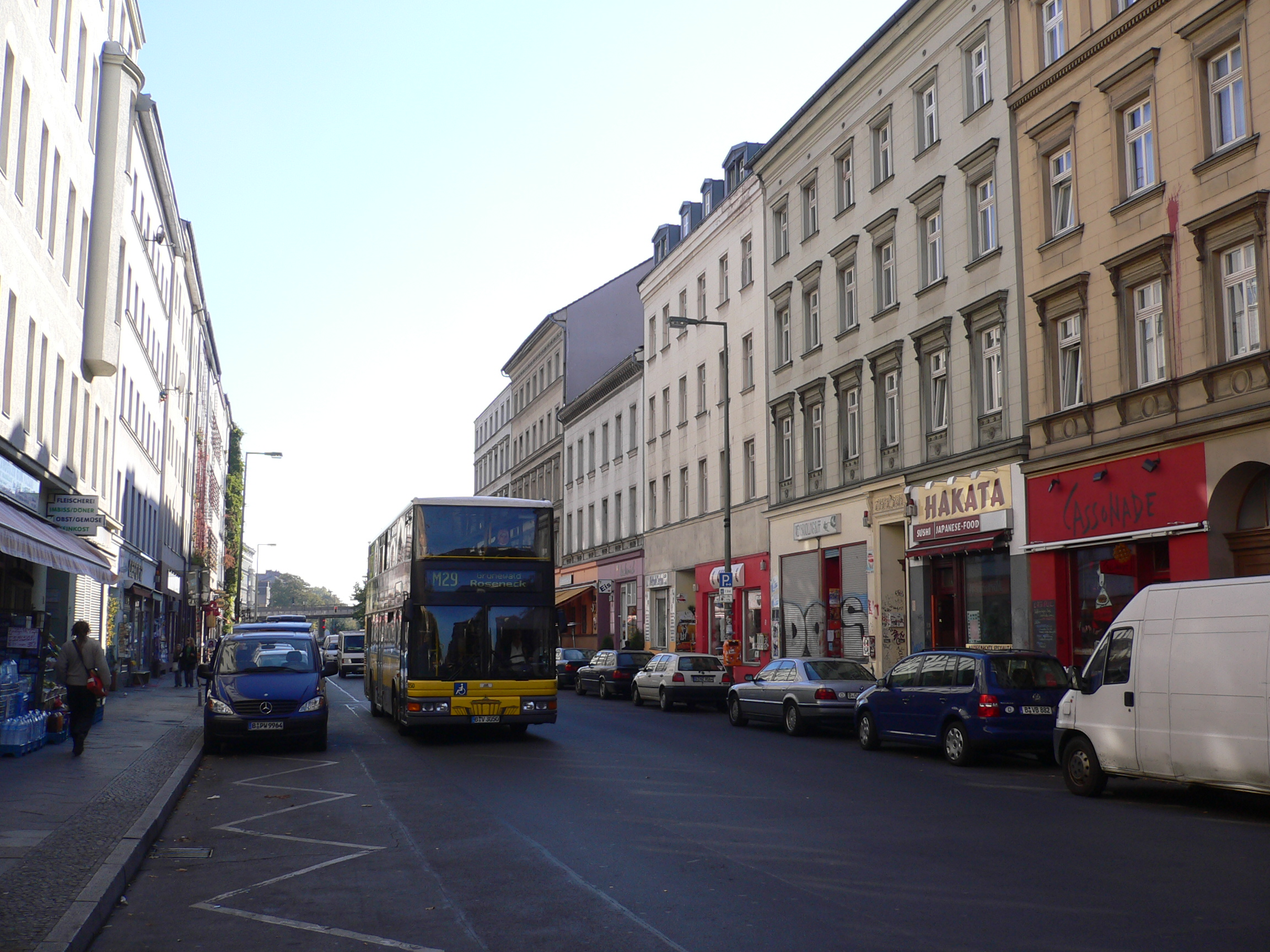 Oranienstraße near Skalitzer Straße in Berlin-Kreuzberg, Germany. Bus Nr. 129, in the background the subway (driving above streetlevel) on Skalitzer Straße.